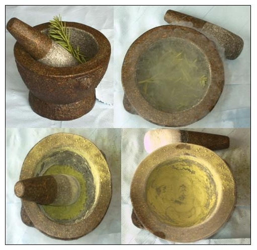 Young shoots of Yew ground using a mortar and pestles after shock freezing with liquid nitrogen